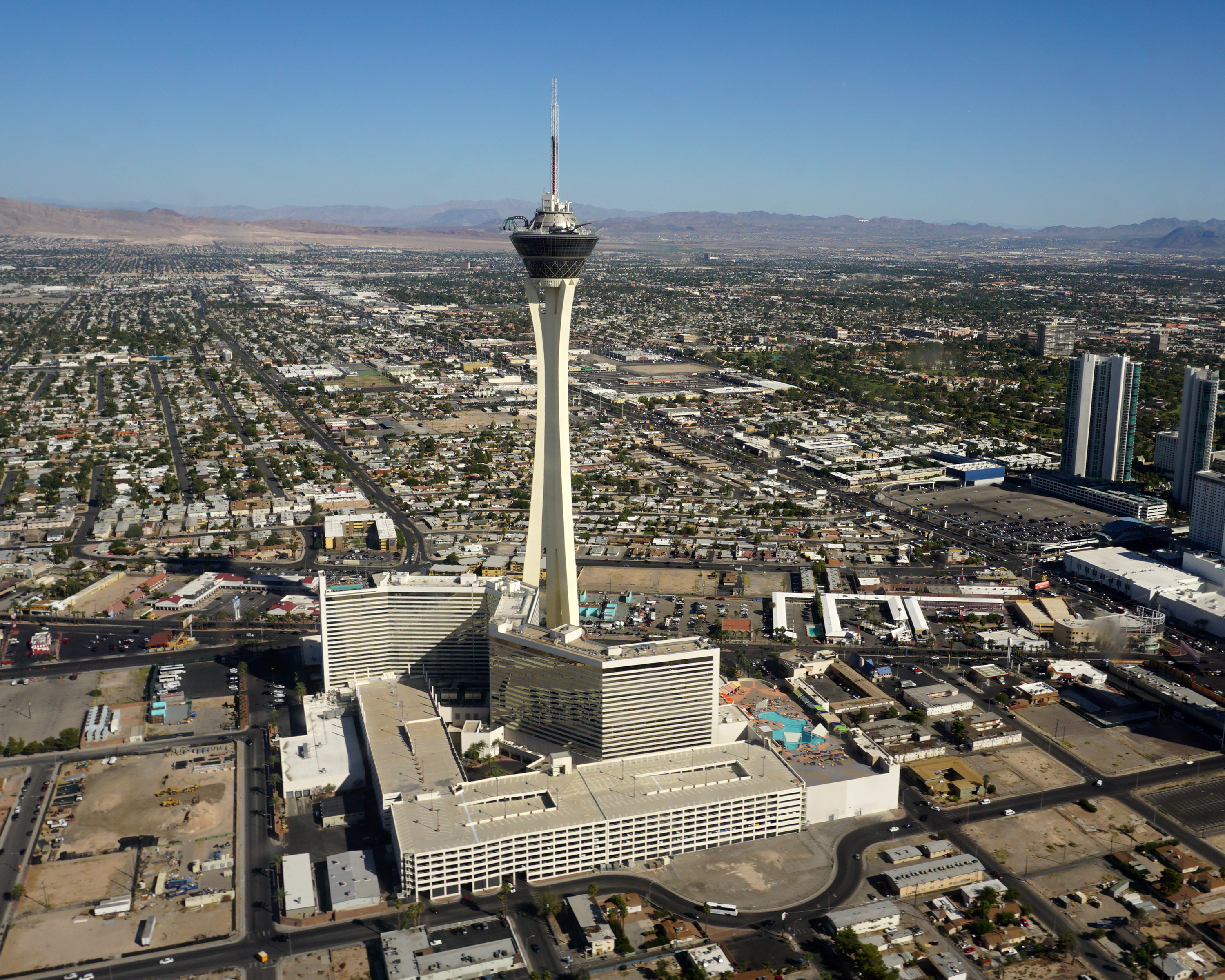 Aerial View of Casino Stratosphere Las Vegas